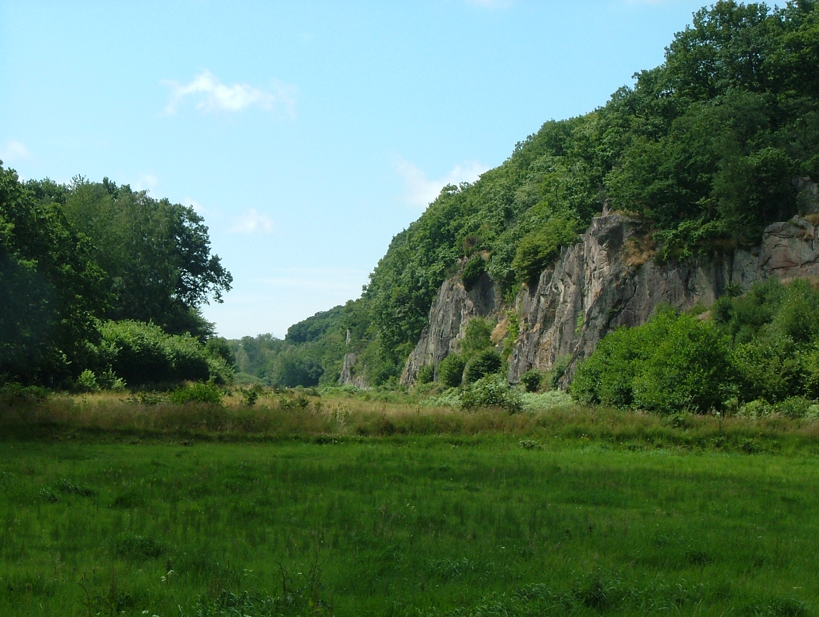 Ekkodalen (Valley of Echos), Bornholm, Denmark